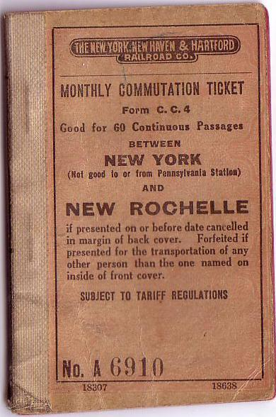 This is a scan of a commuter ticket book for the New York, New Haven Railroad - New Rochelle,NY Train Station. The ticket book is dated from 1921